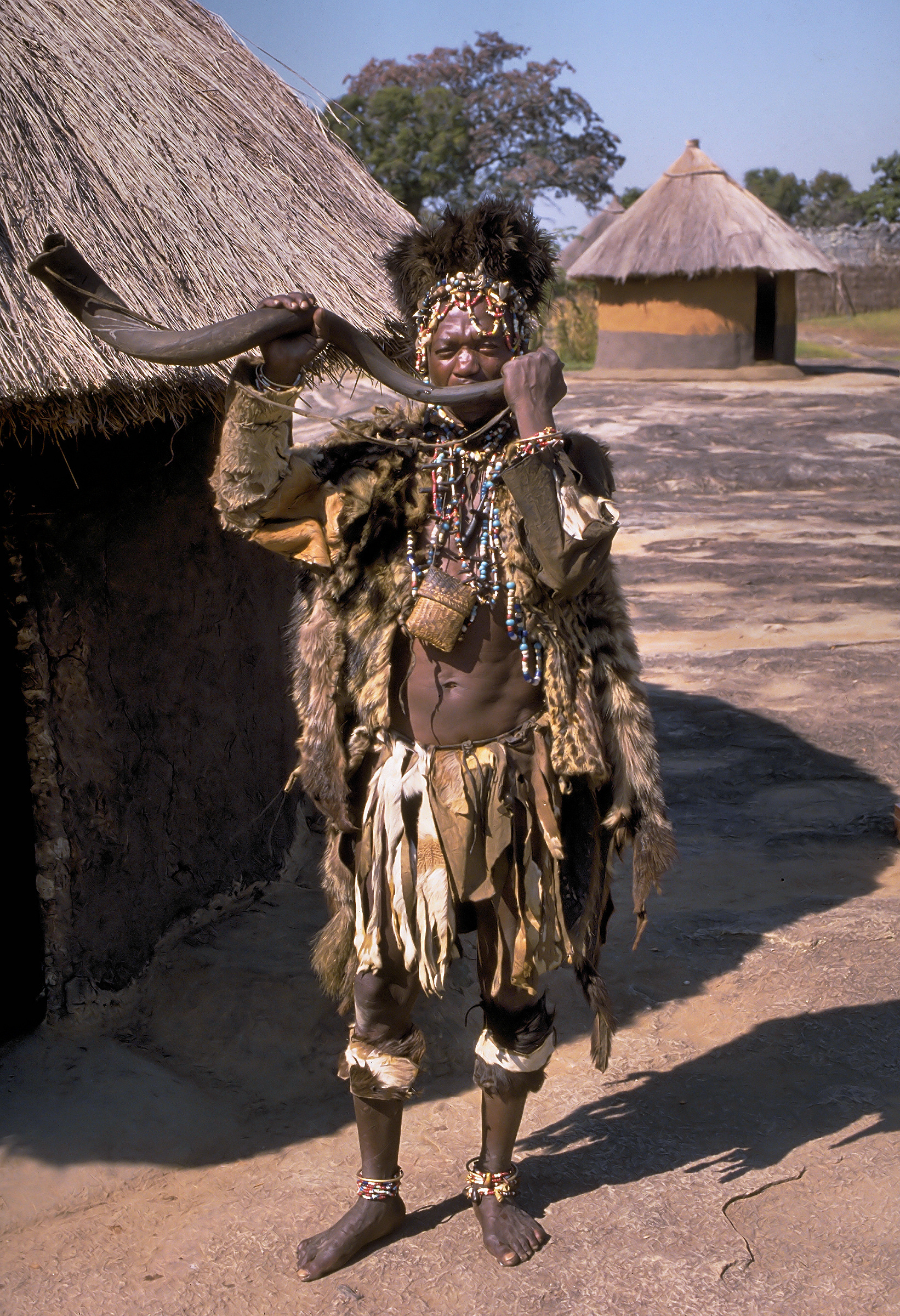 Witch doctor of the Shona people close to Great Zimbabwe, Zimbabwe.Kodak photo CD from slide.